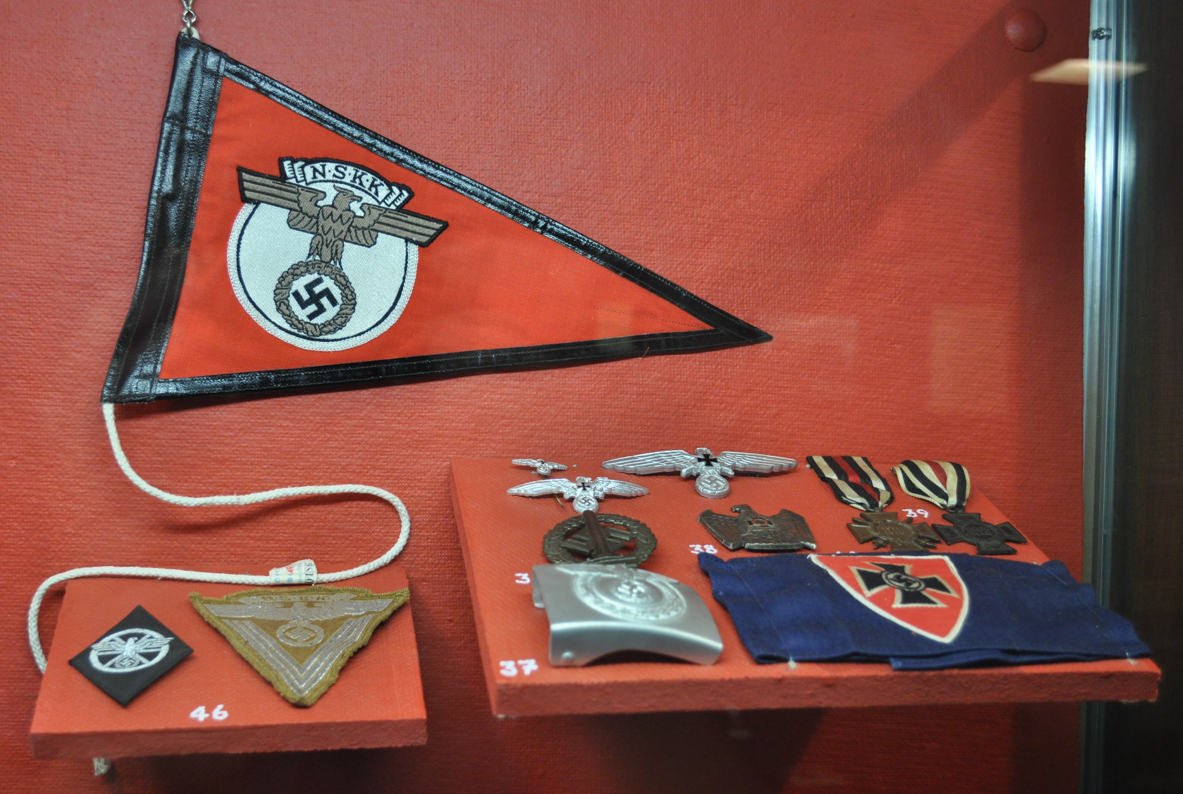 Nazi political and civil badges and insignia, Fort Lewis Military Museum, Fort Lewis, Washington, USA. 35. Veterans organization cap, breast, and membership insignia 36. The museum describes this as "Wounded veterans sport qualification badge for the SA" but it appears to be just "SA badge for war disabled 37. Veterans organization and NEPA (teachers union) belt plate 38. NSKOV (disabled and bereaved association) cap insignia 39. Ehrenkreuz des Weltkrieges ("Cross of Honor" for WWI service) in 3 classes 40. Veterans organization arm band 46. NSKK (Party transportation corps) insignia and pennant Identifications based on File:FLMM - Nazi political and civil organizations insignia list.jpg.